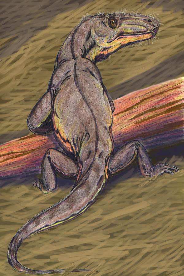 Syodon - reconstruction autor - Bogdanov